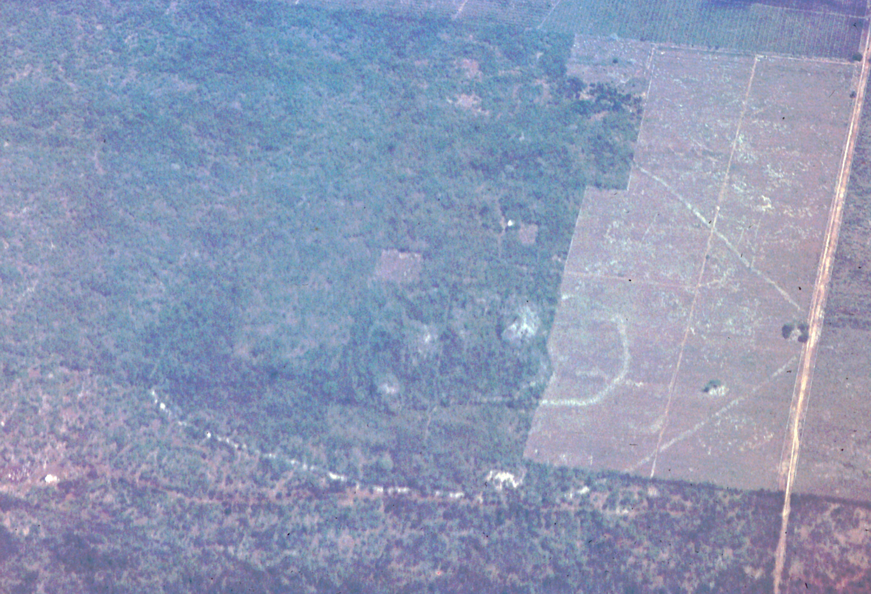 Cuca, Yucatan, Mexico, pyramids and double wall from the air